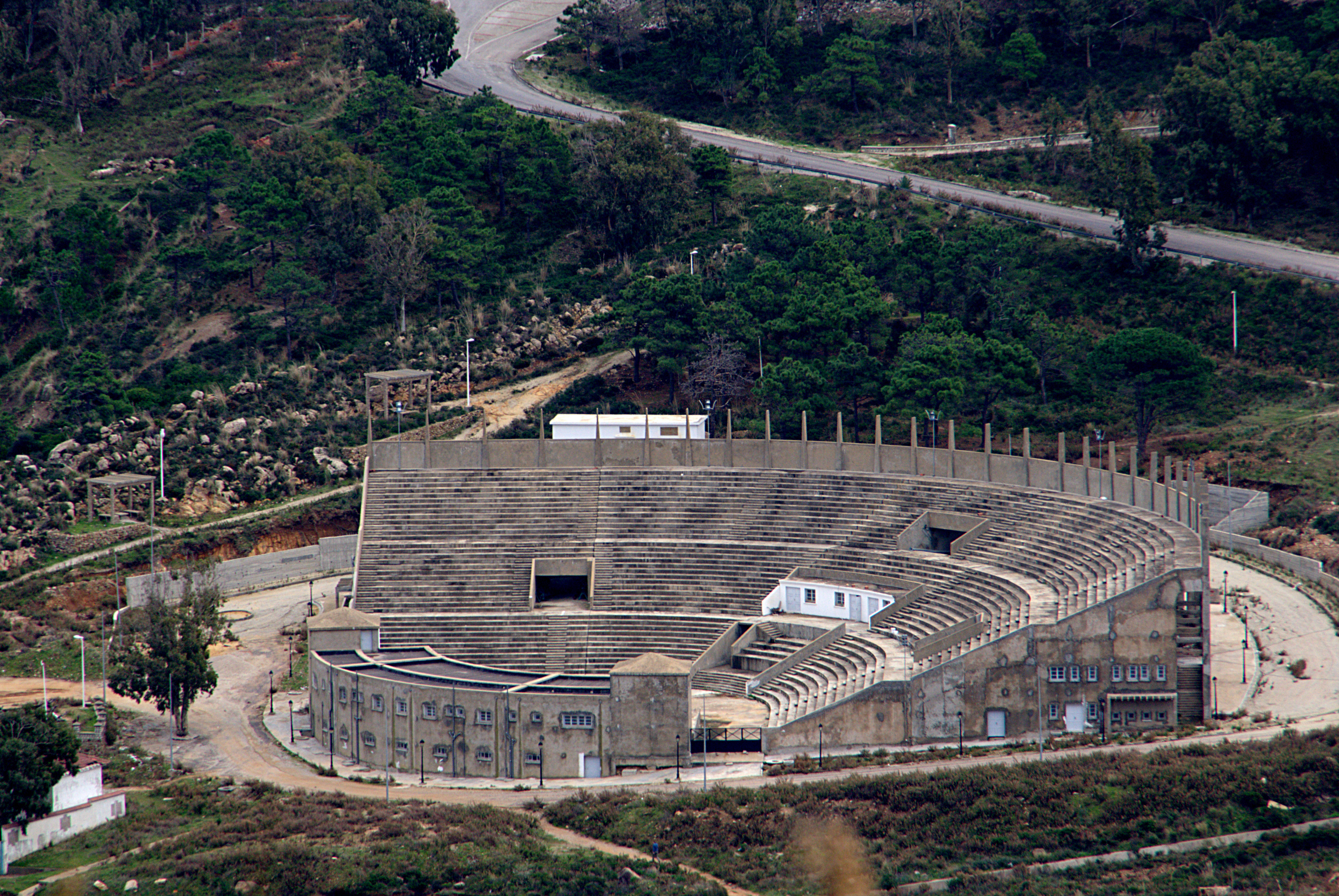 Photographs of Tabarka